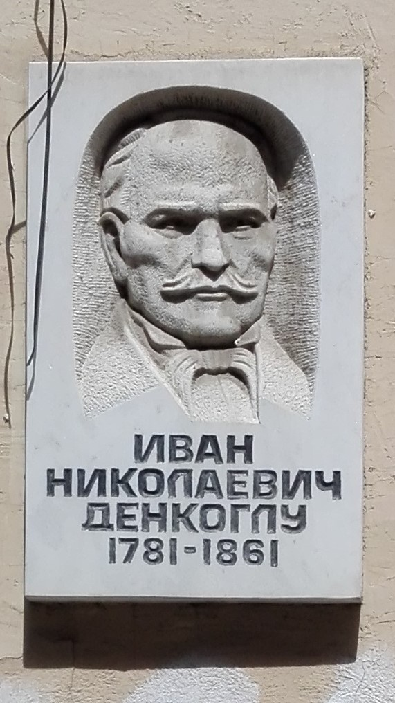 Memorial plaque on Ivan Denkoglu str., Sofia